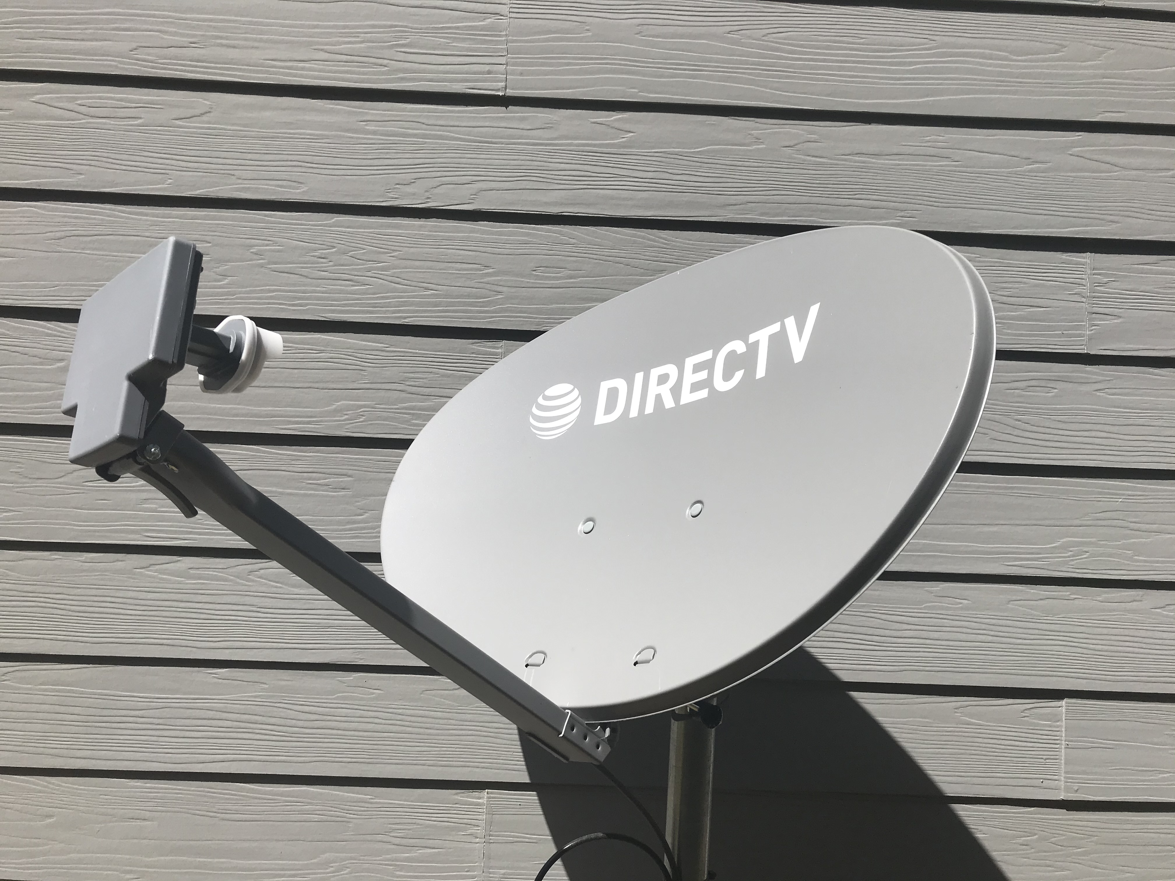 A 4K Reserve Band Slimline 3 satellite dish antenna from DIRECTV.